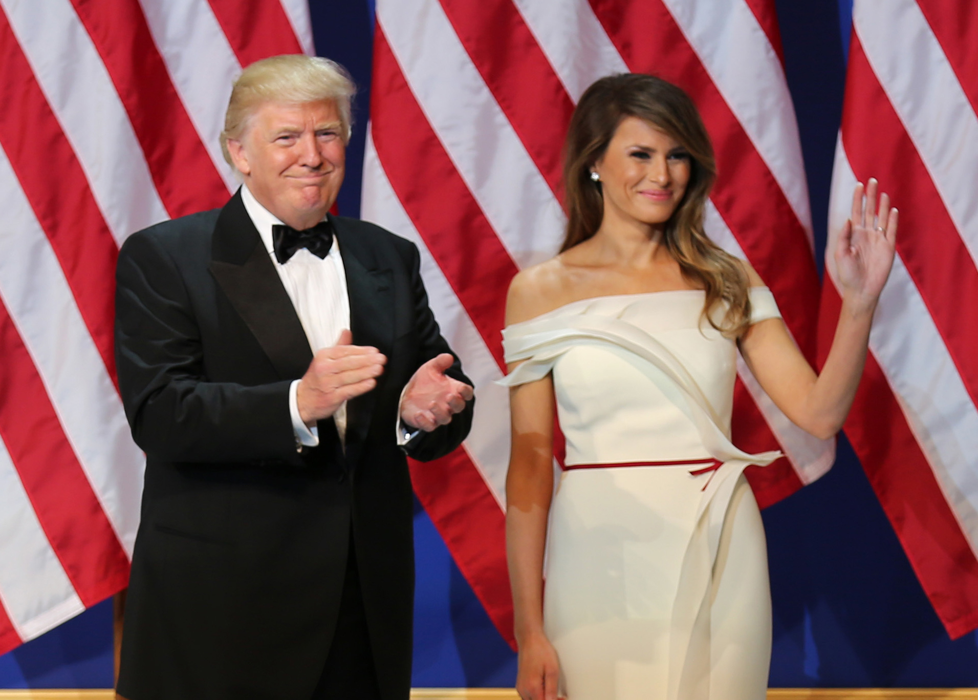 President Donald J. Trump and First Lady Melania greet service members at the Salute to Our Armed Services Ball at the National Building Museum, Washington, D.C., Jan. 20, 2017. The event, one of three official balls held in celebration of the 58th Presidential Inauguration, paid tribute to members of all branches of the armed forces of the United States, as well as first responders and emergency personnel. (DoD photo by U.S. Army Sgt. Kalie Jones)